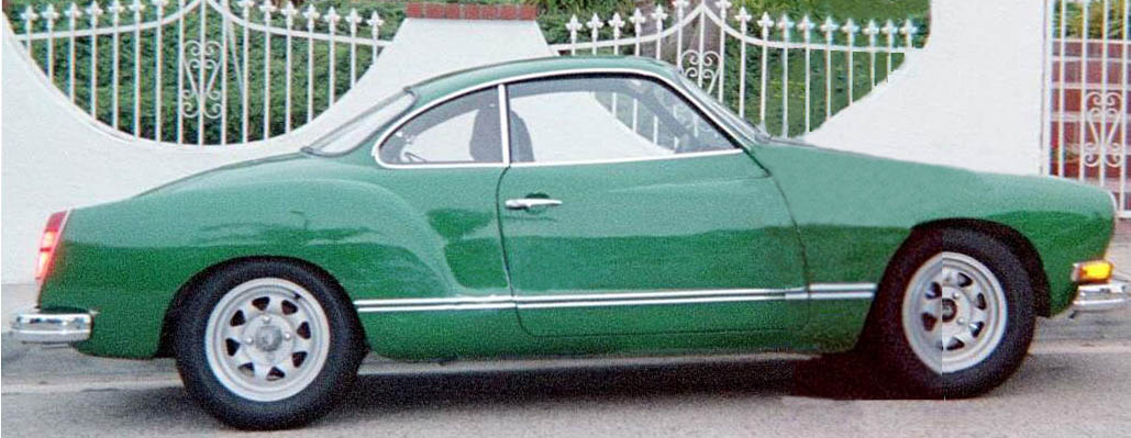 1974 Volkswagen Karmann Ghia